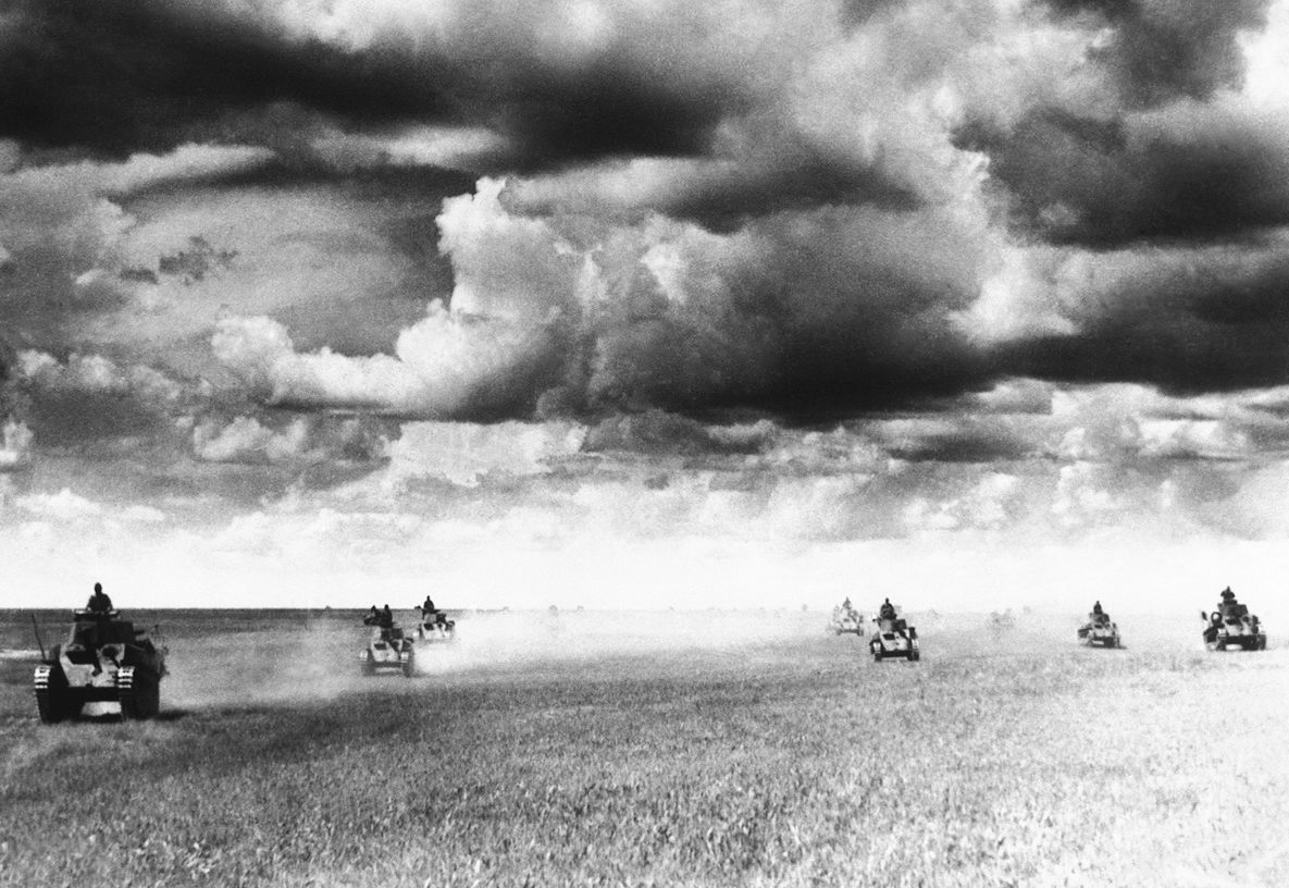 Japanese light tanks moving forward the front of the Khalkha River